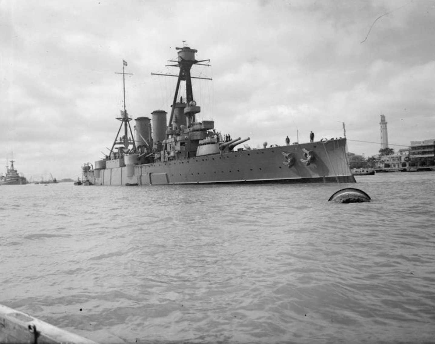 Georgios Averof, guardship, Port Said, 23/2/1943